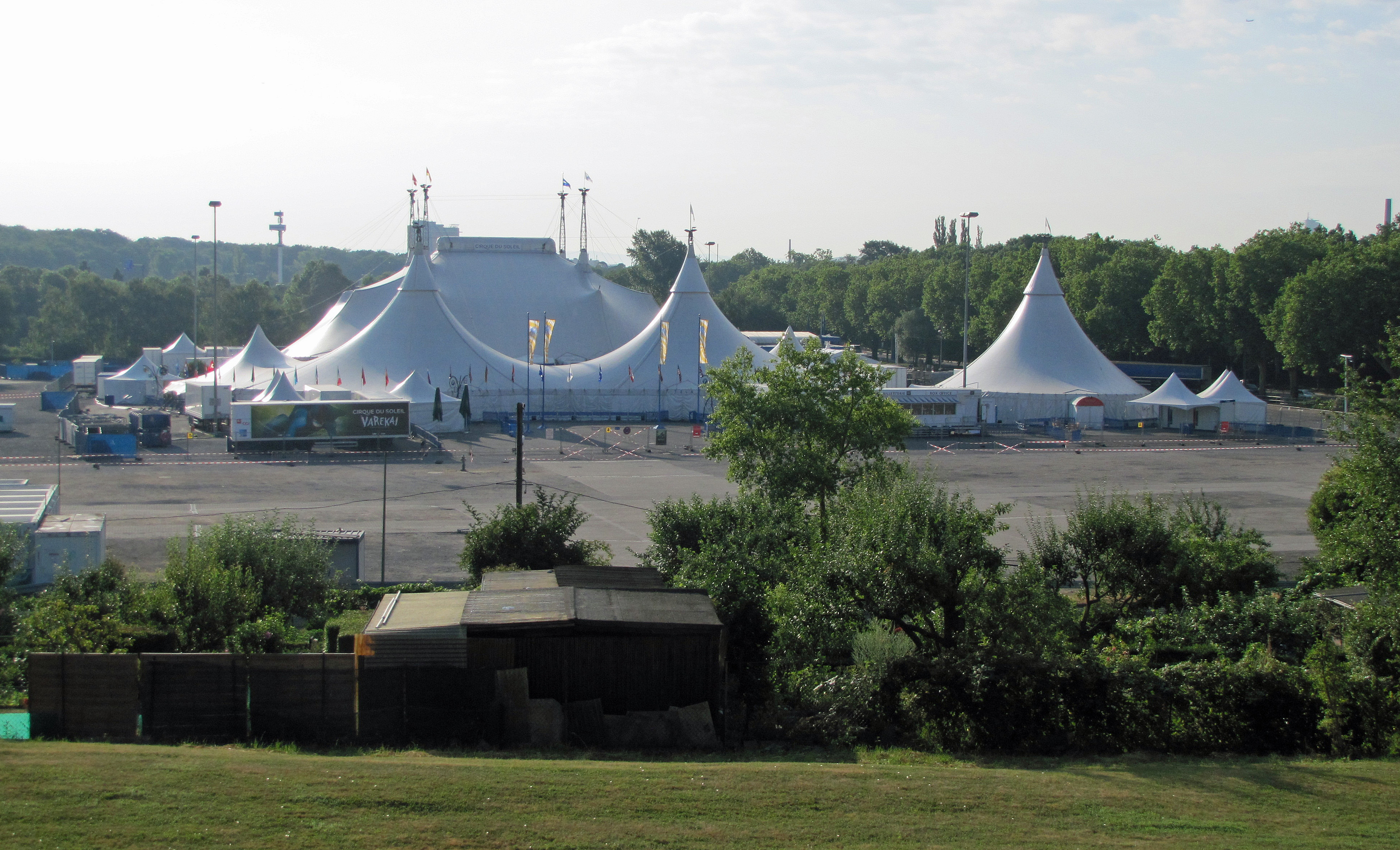 Cirque du Soleil, 2010 in Frankfurt am Main, Germany.